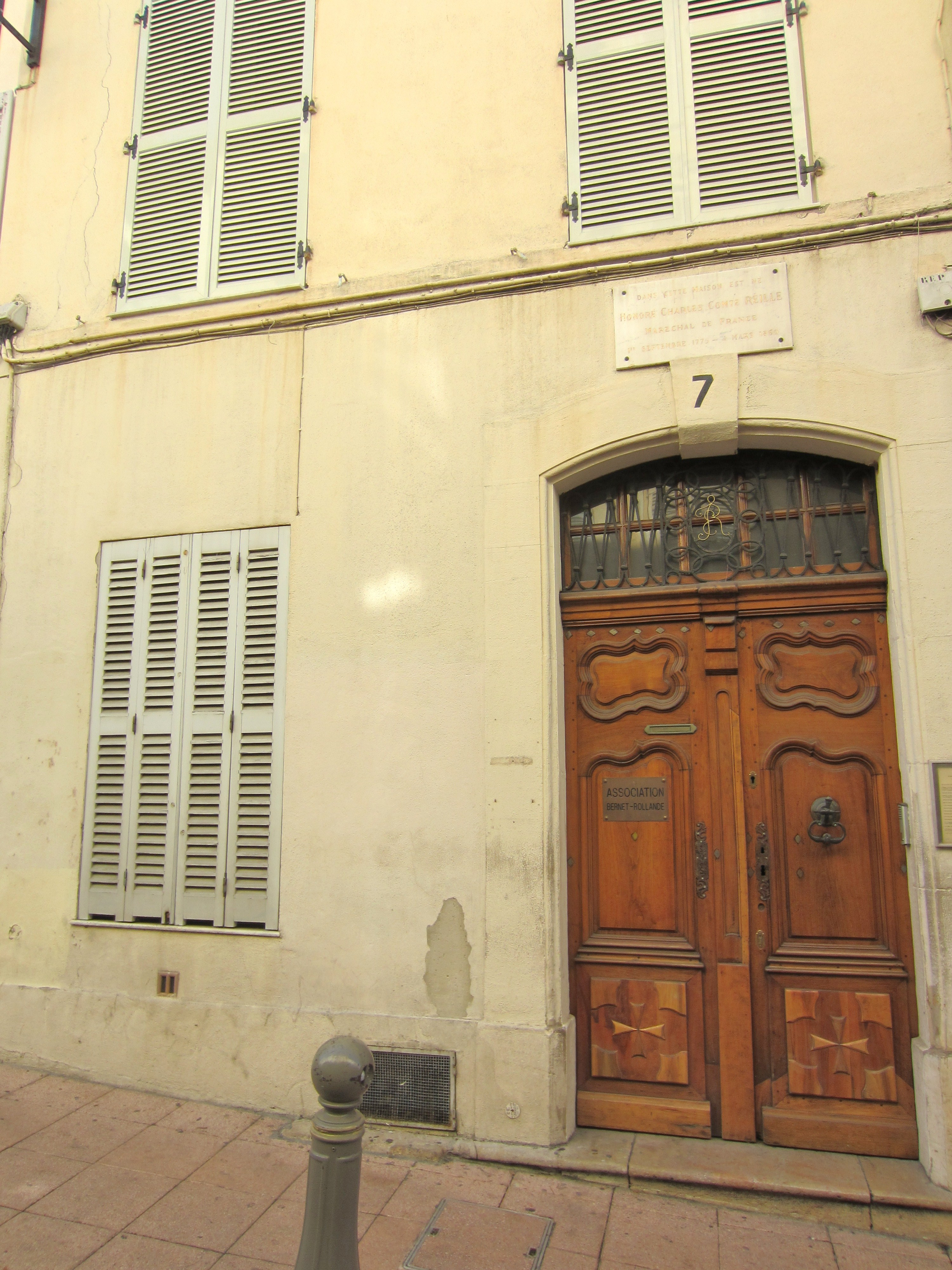 Description maison naissance Honore Reille Antibes Date23 October 2011Sourcemon appareil photoAuthorAimelaimePermission(Reusing this file) maison naissance Honore Reille Antibes